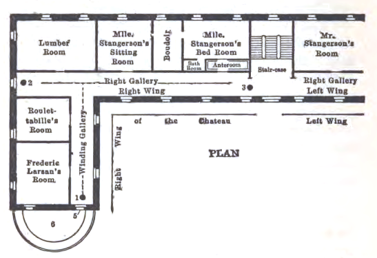 Image from a US English version of "The Mystery of the Yellow Room". Published in 1908.